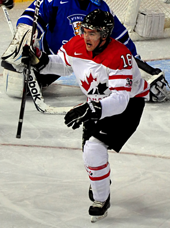 Team Canada forward Mark Stone (#16) scores a hat trick goal in the third period against Finland during the 2012 World Junior Championships. The final score was 8-1 for Canada on December 26, 2011, in Edmonton, Alberta.